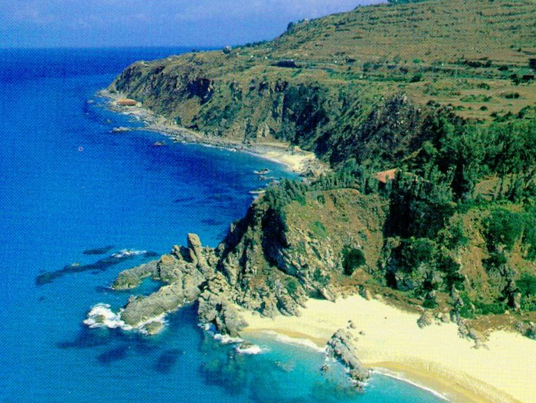 Punta Capo Cozzo,Zambrone(vv),Calabria,Italy